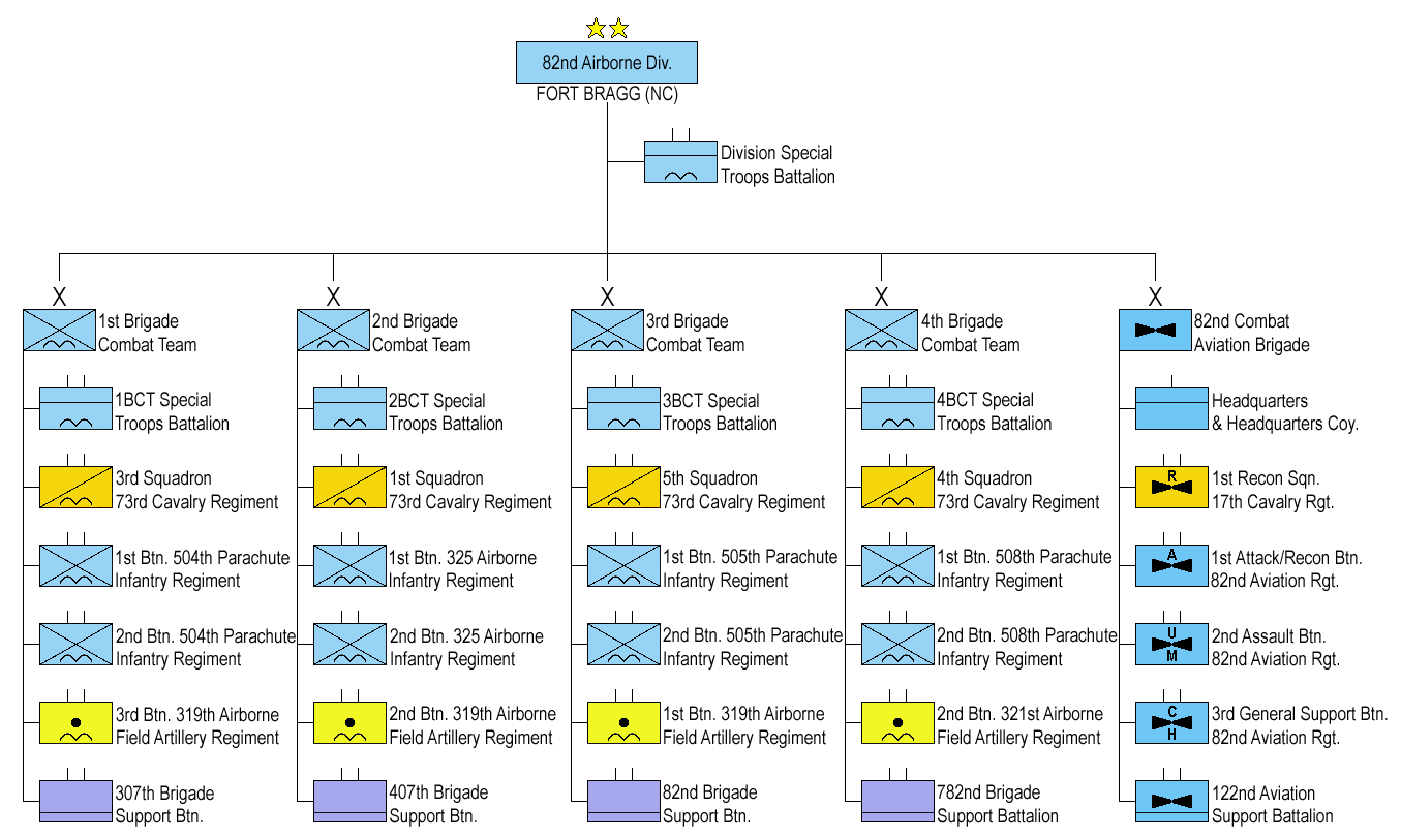 US Army 82nd Airborne Division Structure